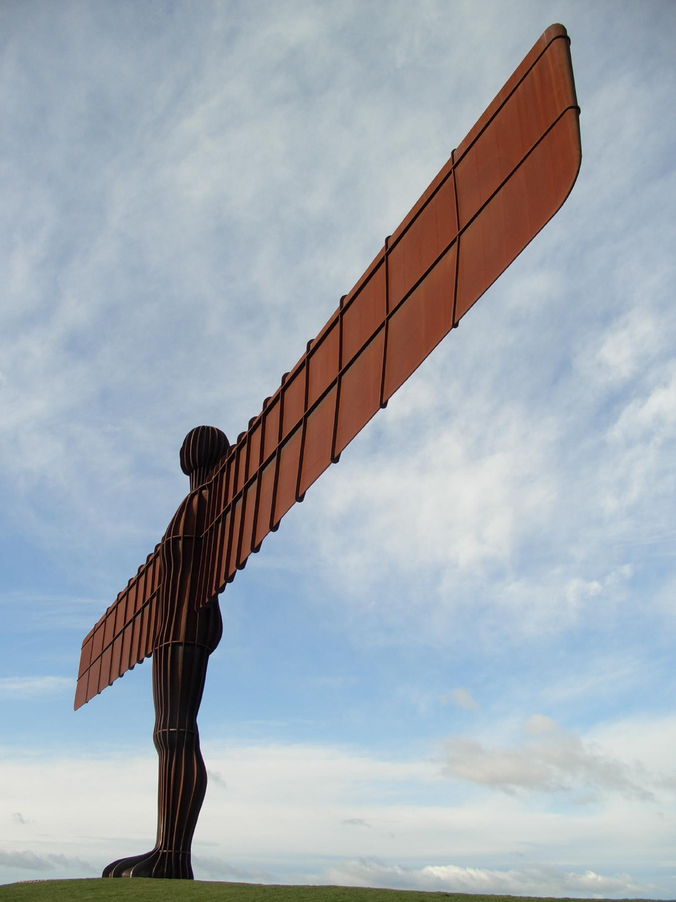 Antony Gormley's sculpture made of steel Angel of the North, overlooking the A1 at Gateshead since 1998, northeast of England